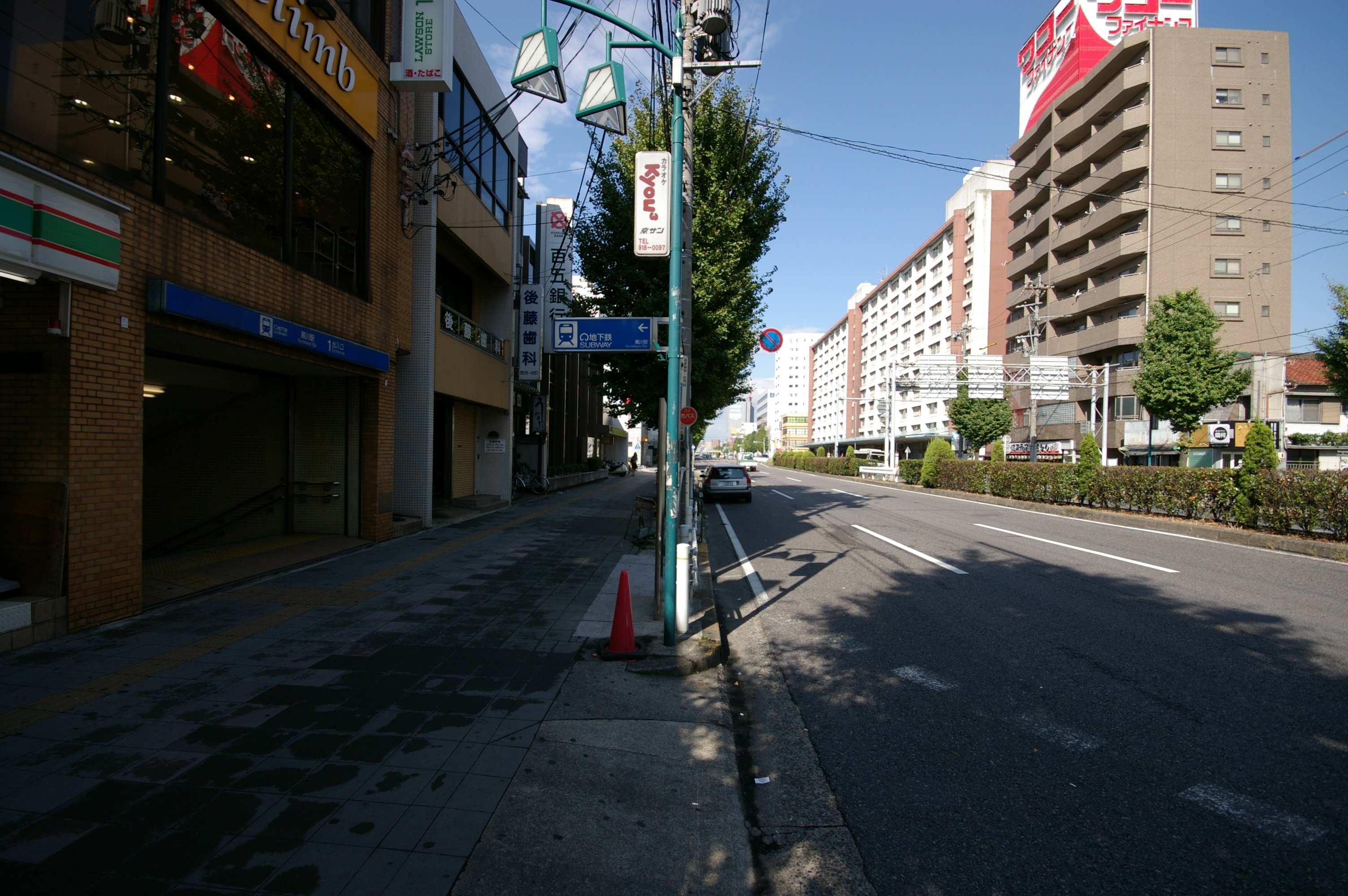 Nagoya Subway Kurokawa Station